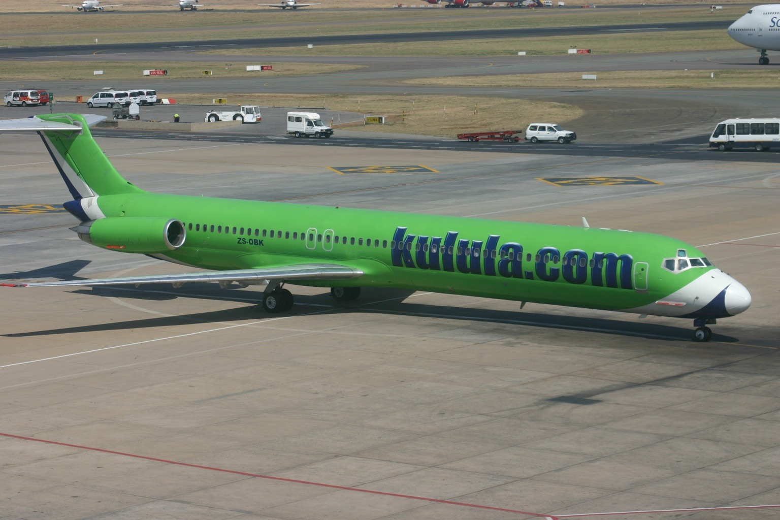 At Johannesburg OR Tambo International